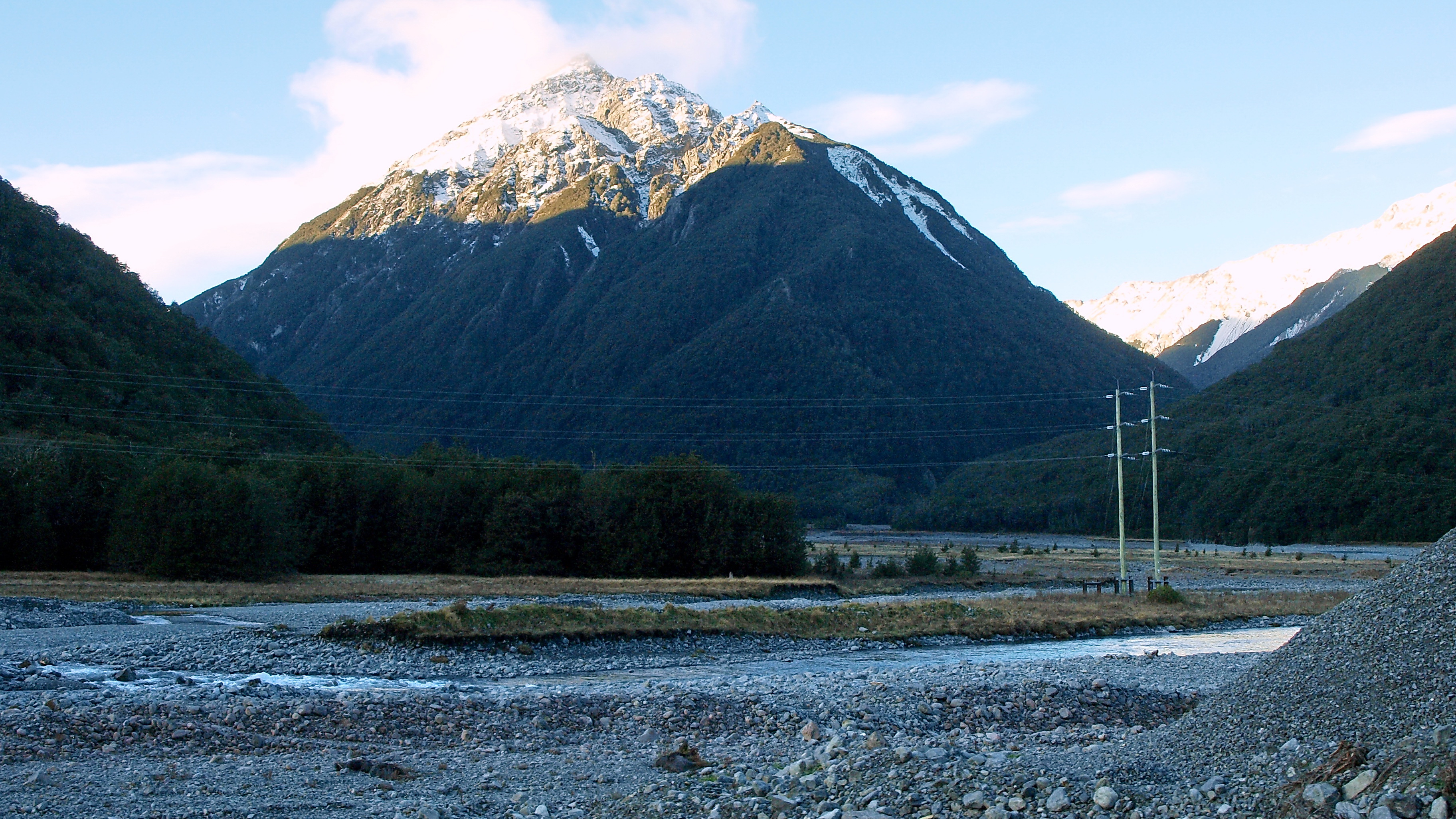 Mt Williams 1718m and The Spike 1440m